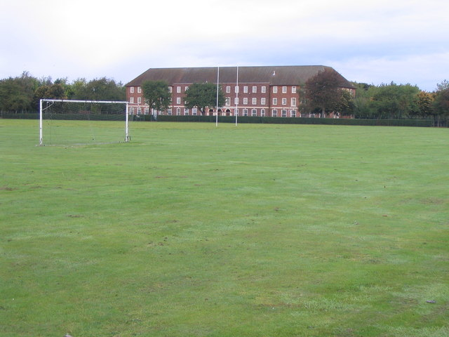 RAF Ternhill Part of Clive Barracks at Ternhill. Clive was Clive of India, probably Market Drayton's most famous son.